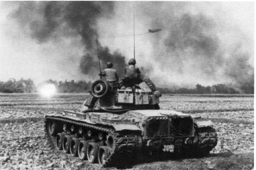 1th Armored Cav. M-48 Patton Tank west of Saigon, Vietnam. Probably diesel engine M-48A3, most common variant in Vietnam.